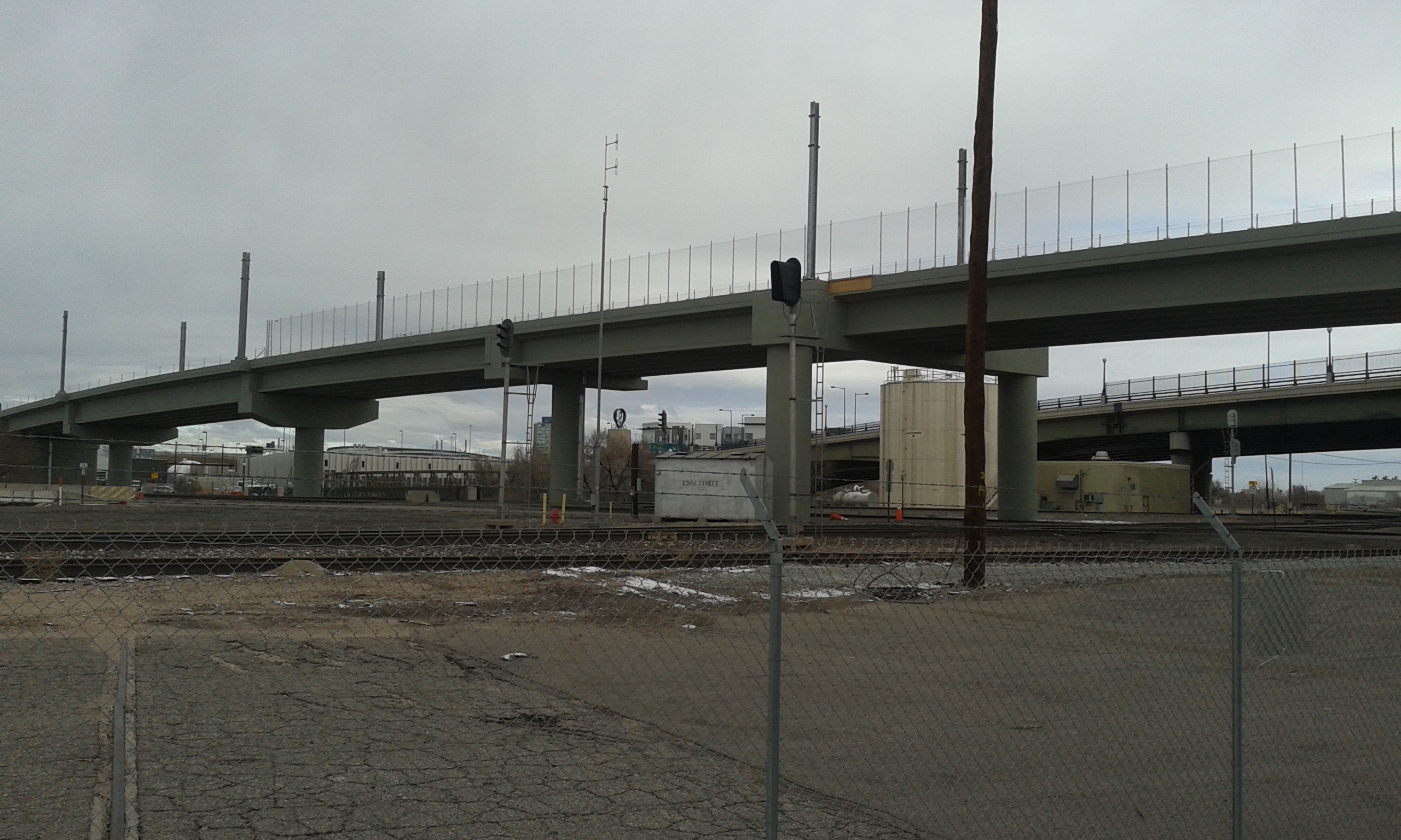 B and G lines bridge over rails and South Platte River near downtown Denver, Colorado.